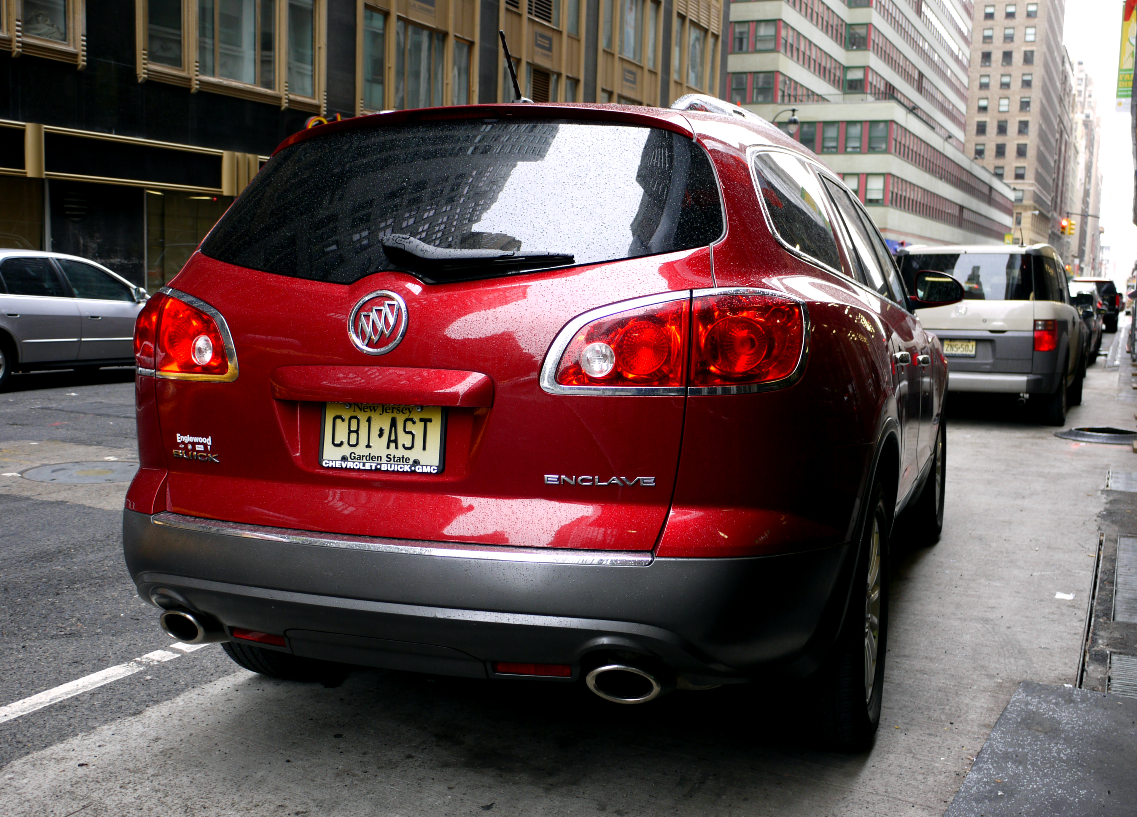 2010 Buick Enclave CX. Quite an attractive SUV I think... Would do pretty well in Europe.